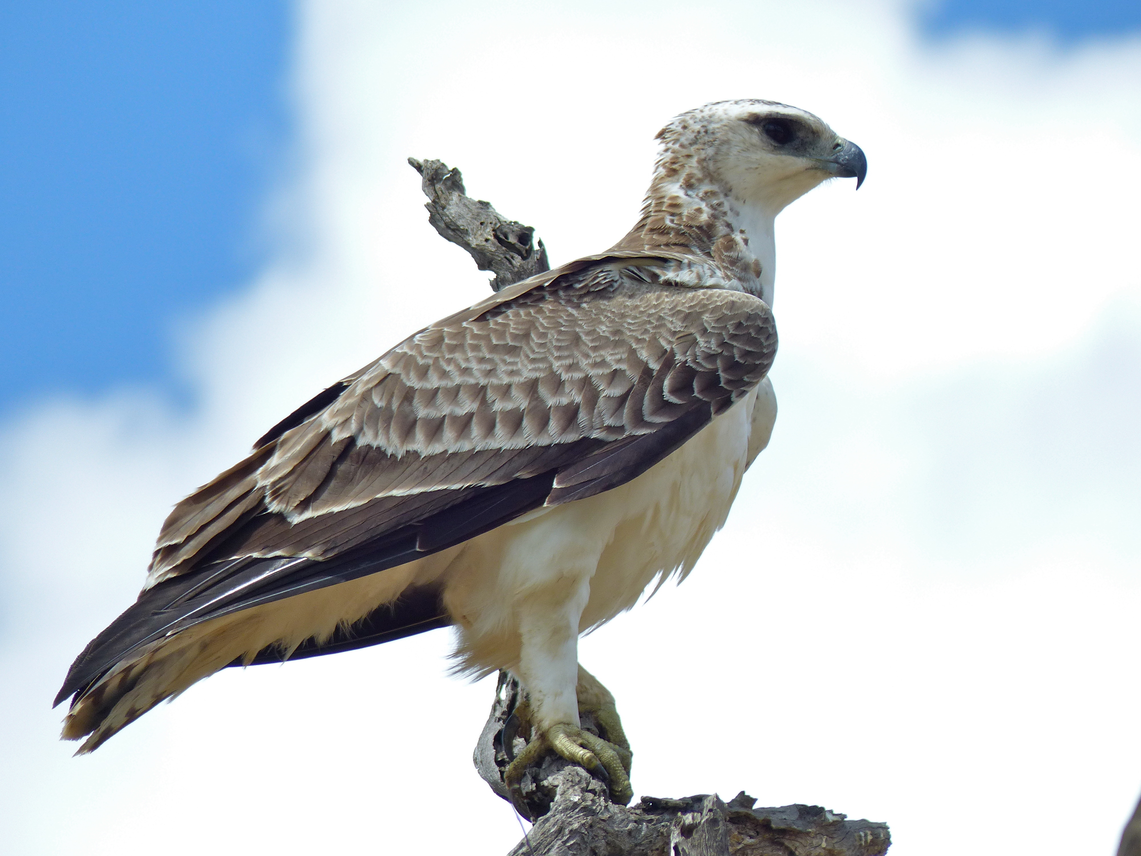 Sable Dam, S51 Road East of Phalaborwa, Kruger NP, SOUTH AFRICA